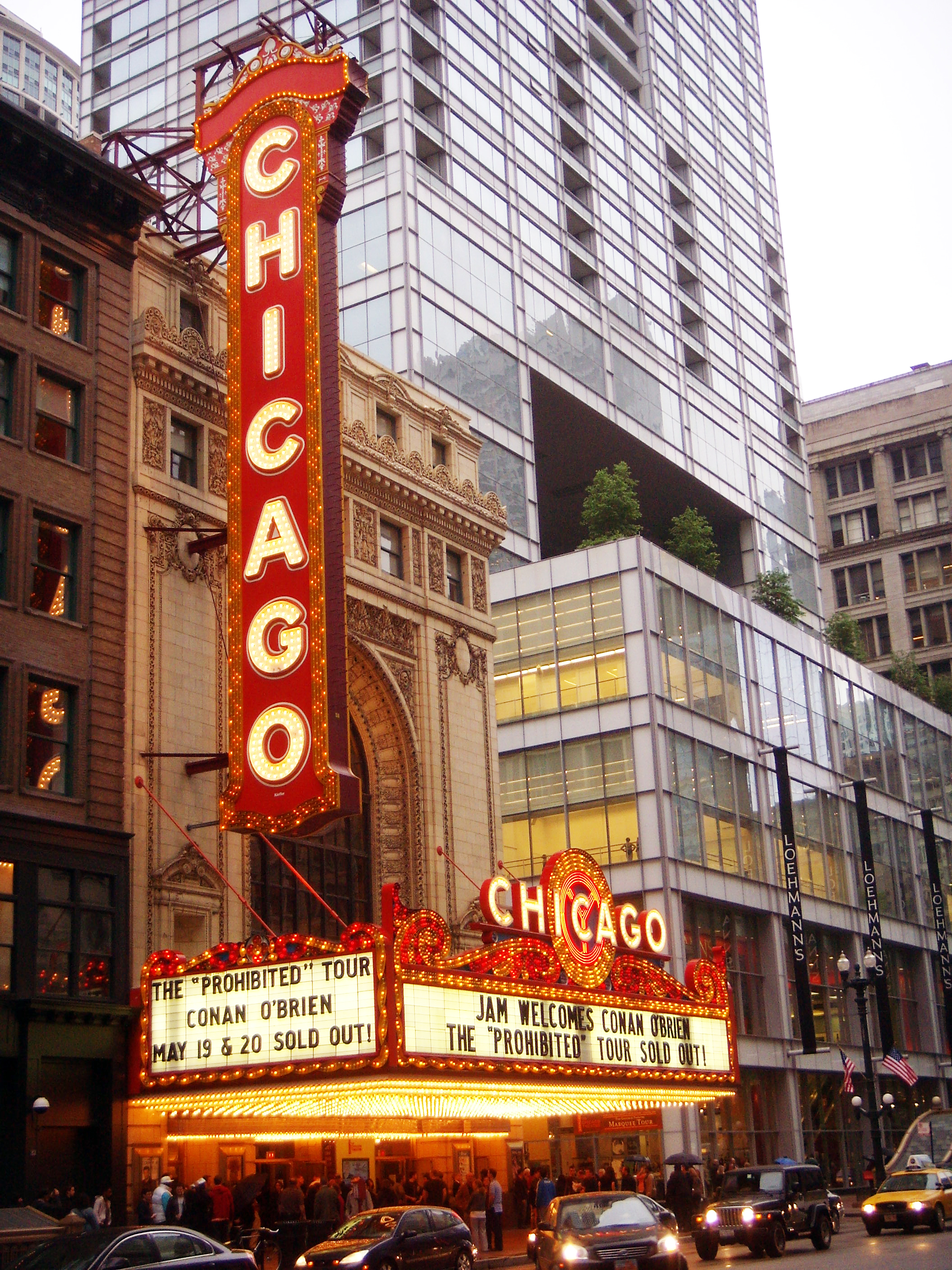 Wow, I forgot how good photos can look on cameras that aren't the iPhone.